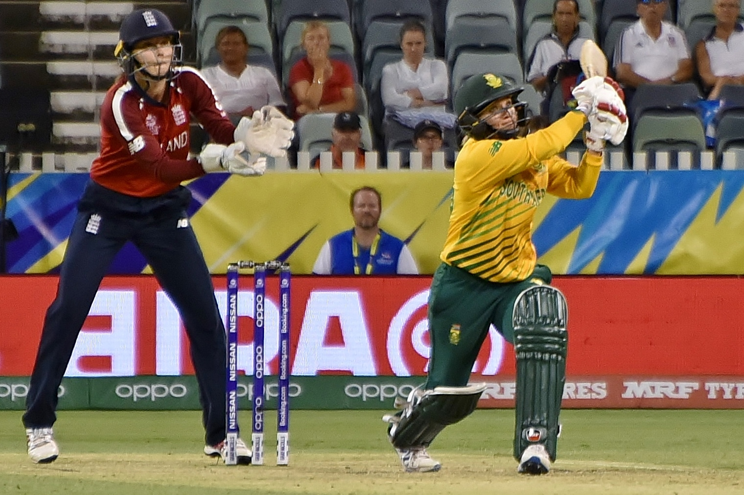 Mignon du Preez batting for South Africa against England during their 2020 ICC Women's T20 World Cup match at the WACA Ground in Perth, Australia. The wicket-keeper is Amy Jones.